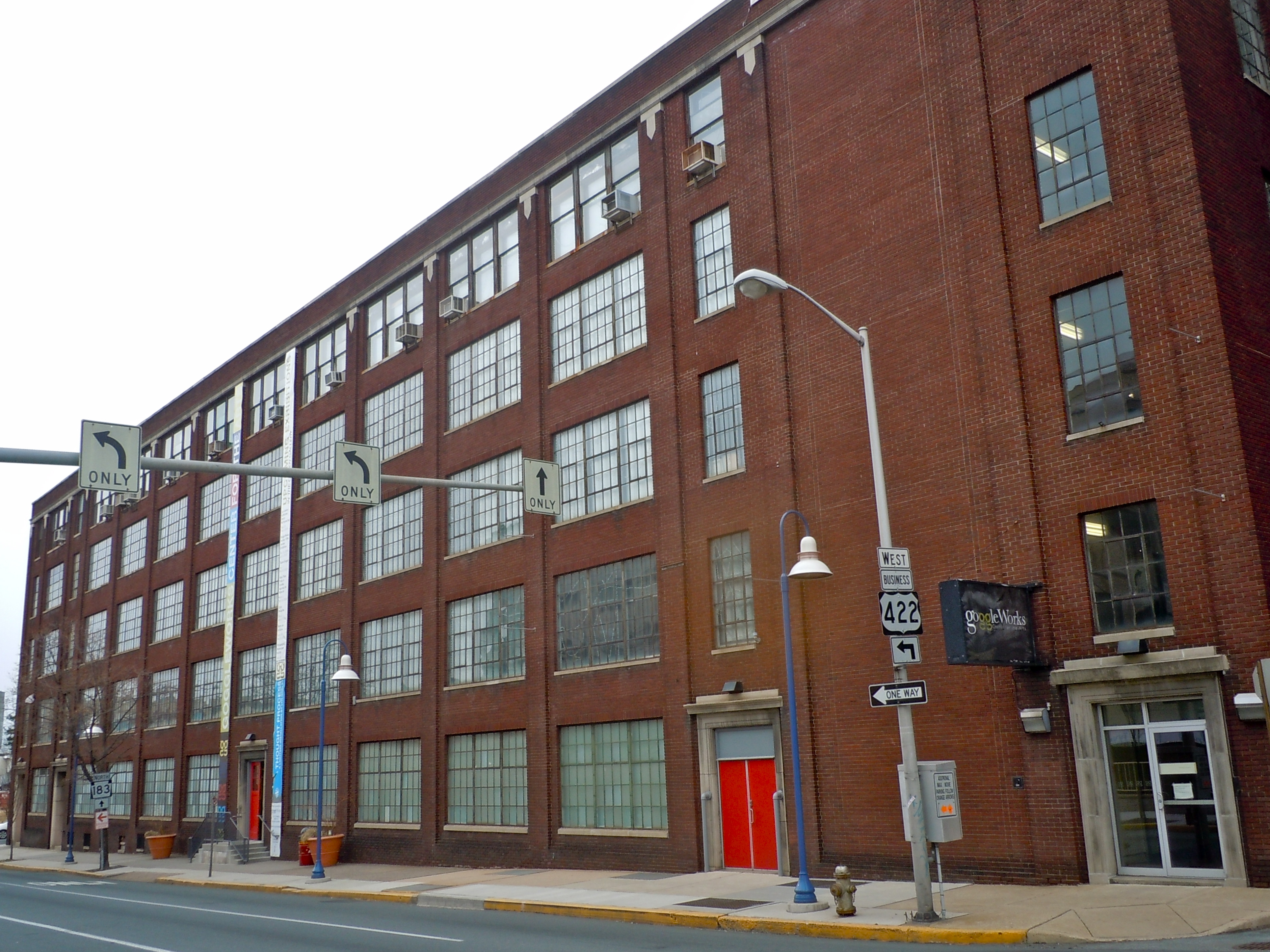 Thomas A. Willson and Co., now known as the Goggle Works (note: NOT Google Works) on the NRHP since May 24, 2006. At 201 Washington Street, Reading, Berks County, Pennsylvania. Now a museum and art center.